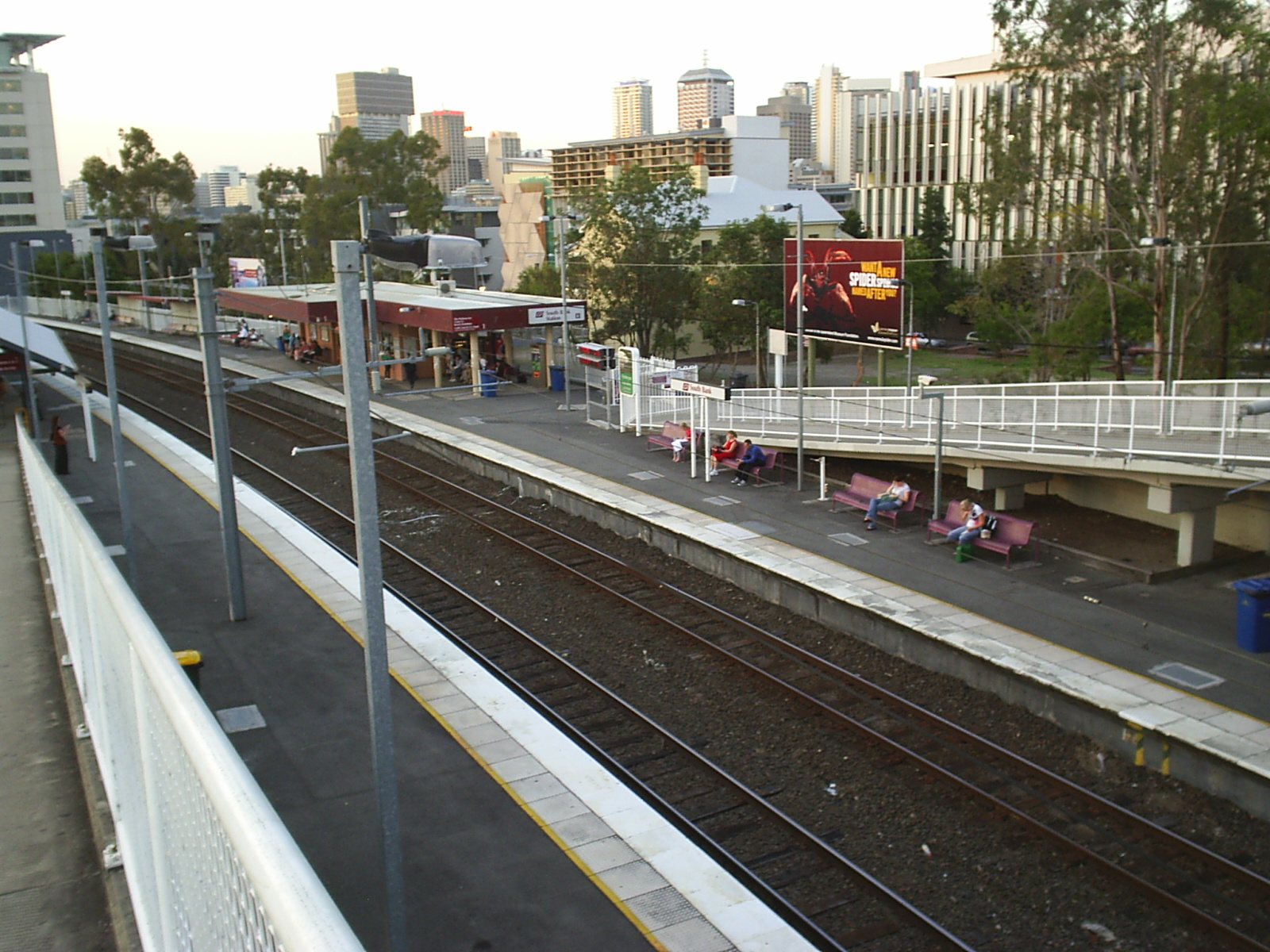 QR South Bank station. Taken on 21/09/06 by Qld matt 11:29, 23 September 2006 (UTC)